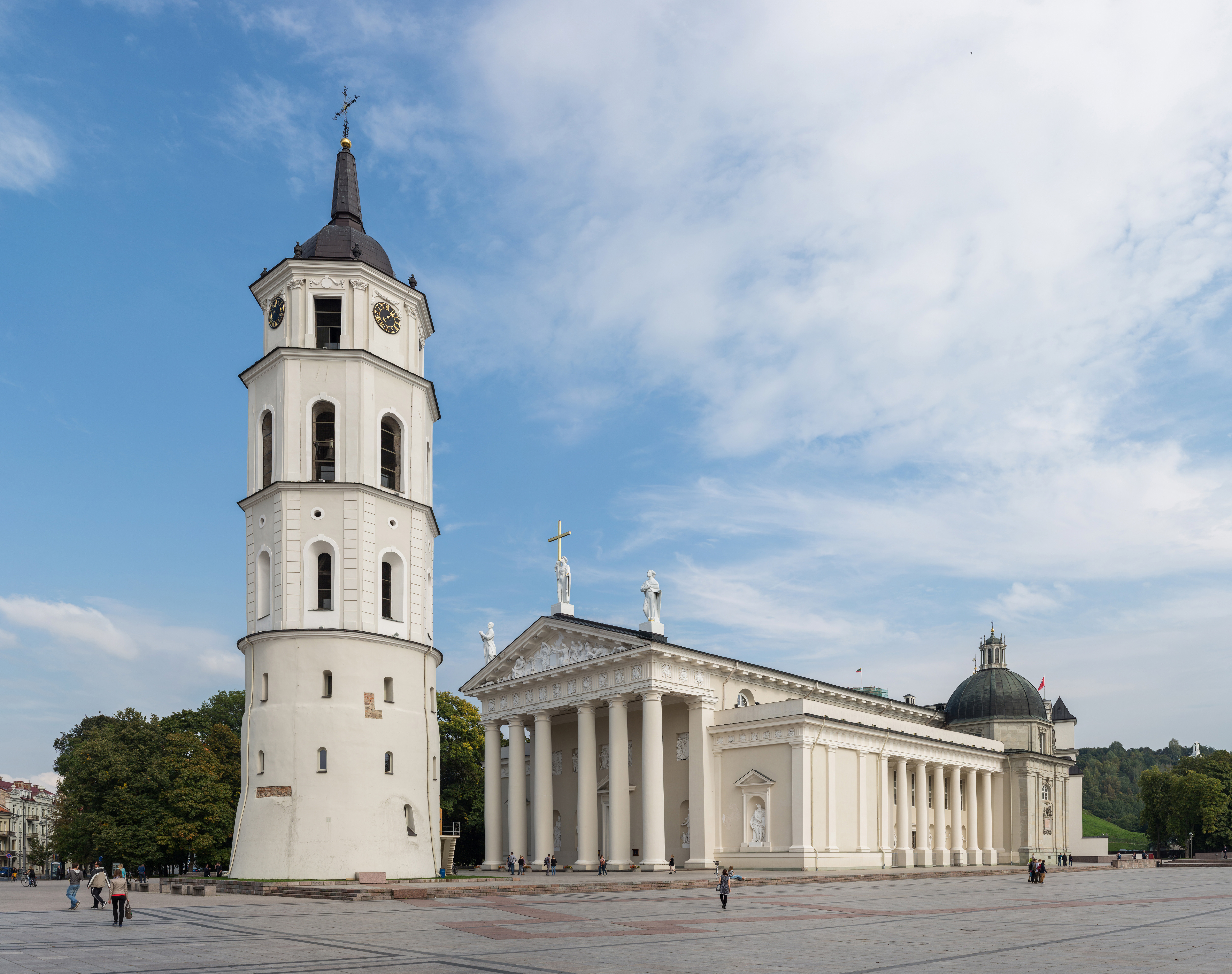 The exterior of Vilnius Cathedral viewed from the south west. On the left is the belfry.